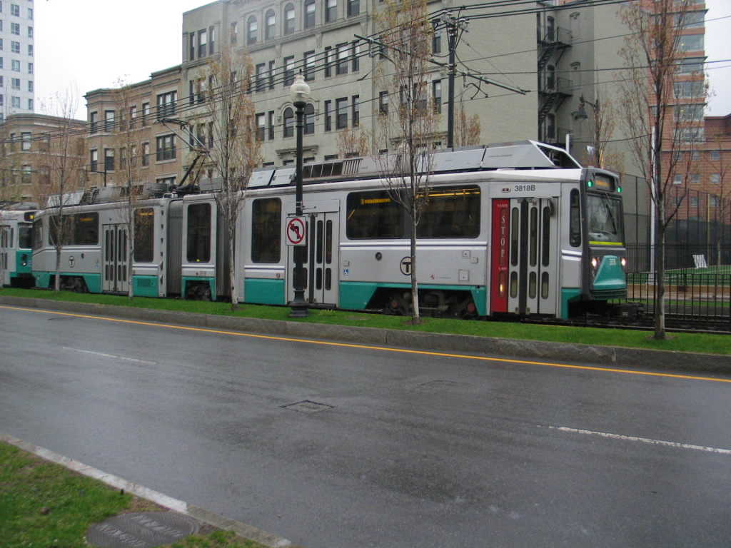 Type 8 Breda LRV on the MBTA Green Line E branch in Boston, between Northeastern and Museum of Fine Arts stops. Rubenstein Hall of Northeastern University is behind the tram; Burstein Hall is to the left (east).